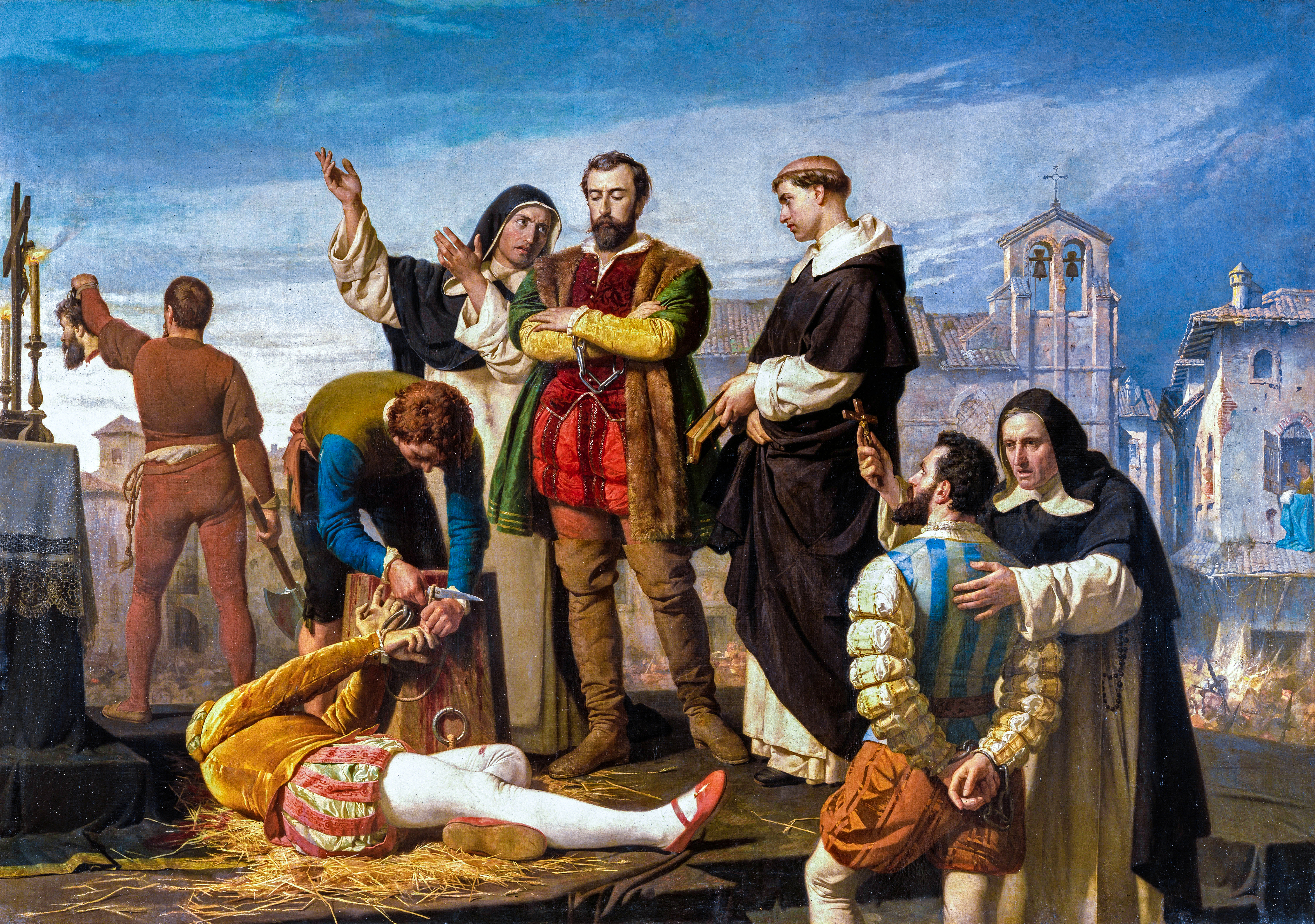 Execution of the Comuneros of Castile, by Antonio Gisbert (1834–1901). (Alternate title: Los comuneros Padilla, Bravo y Maldonado en el patíbulo.) An oil-on-canvas work painted in 1860.